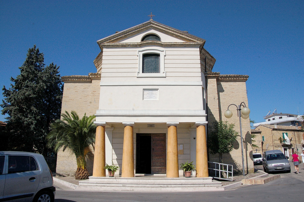 Vasto